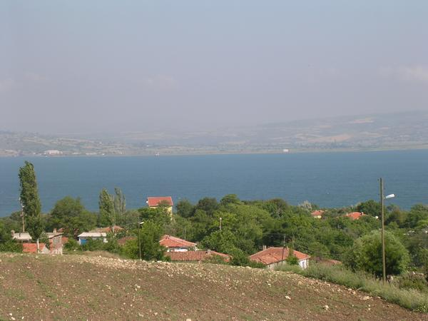 View across the Hellespont to Aigospotamoi